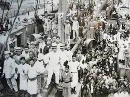 First Japanese immigrants in Brazil, aboard Kasato Maru ship in Port of Santos, Brazil